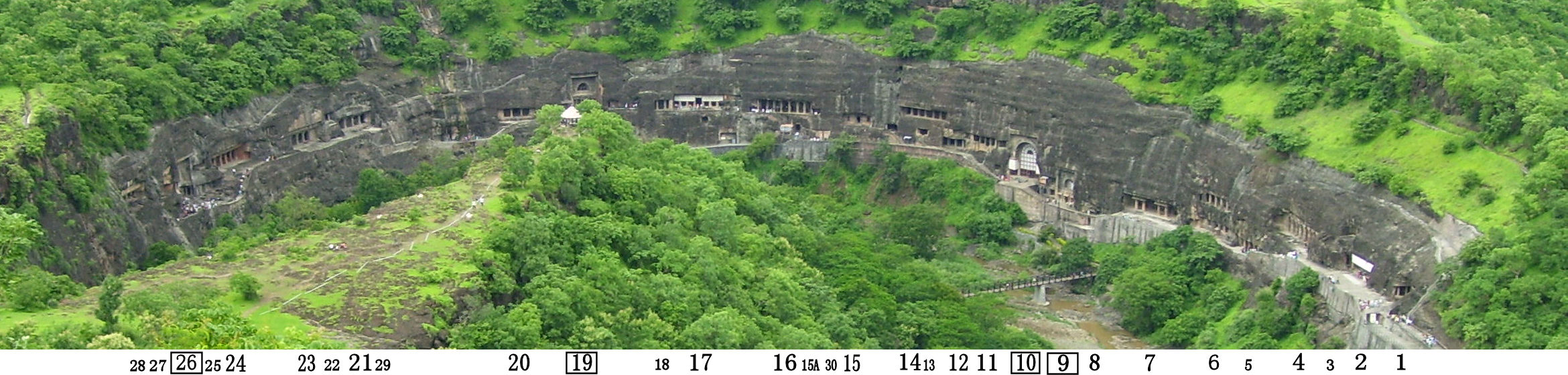 Ajanta caves full panorama with cave numbers